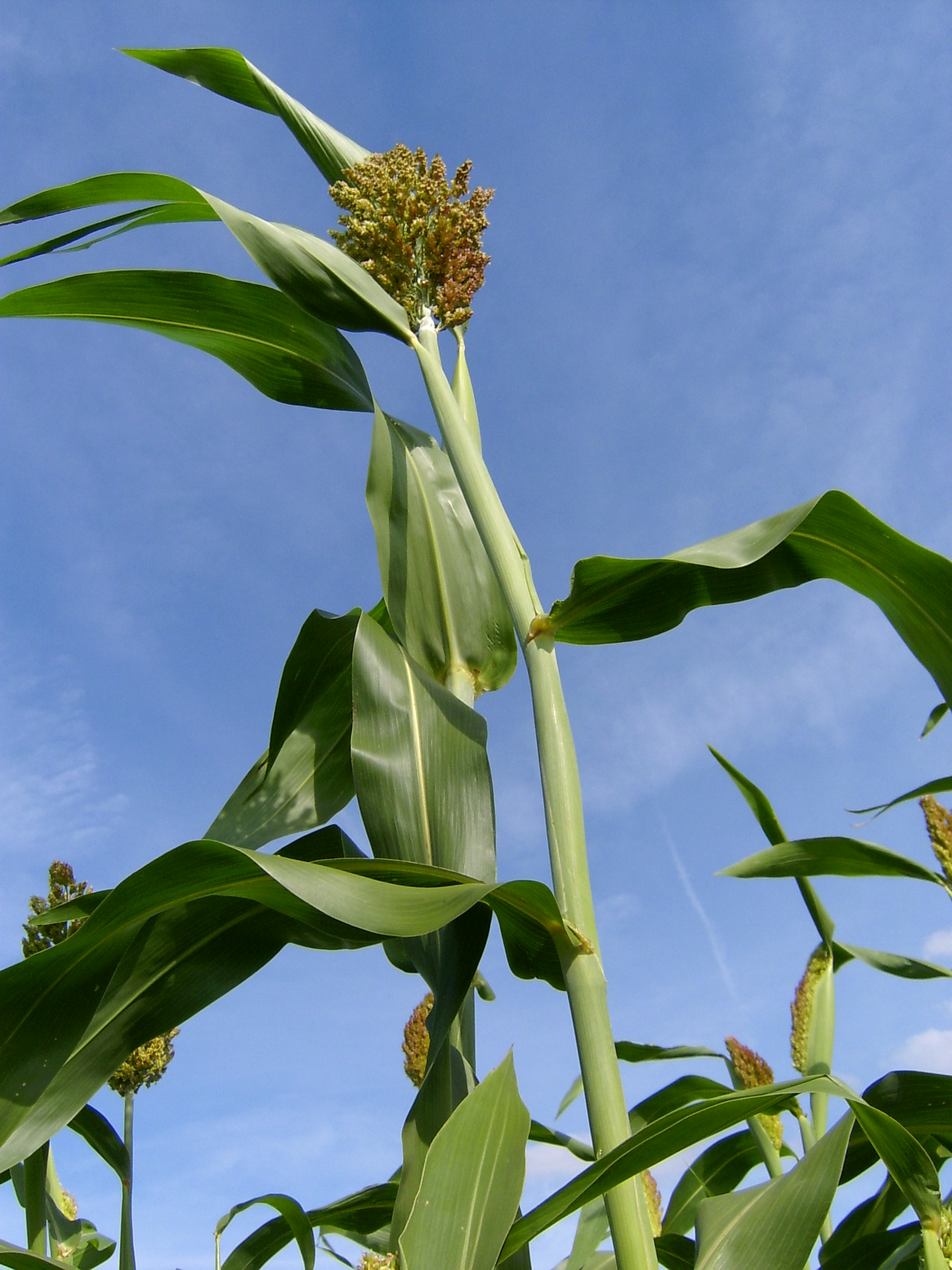 Sweet Sorghum bicolor (Subfamili Panicoideae) with flowering panicle, 3 m tall